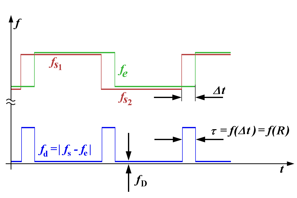 Principle of FMCW-Radar using Frequency-Shift-Keying (FSK)